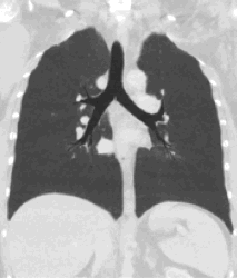 10 mm coronal minimum intensity projection CT thorax